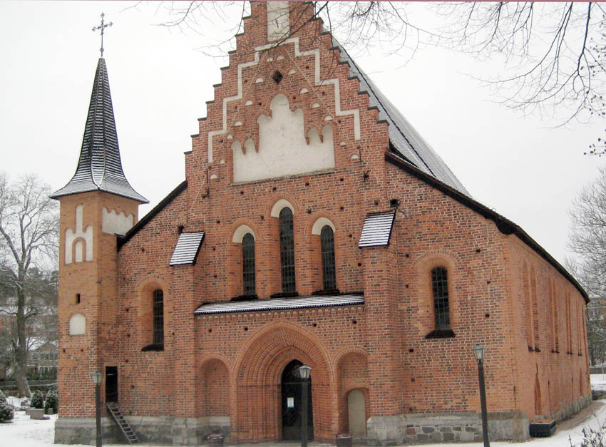 Mariakyrkan i Sigtuna. 1200-talet. S:t Mary, Sigtuna, Sweden. 13th Century.